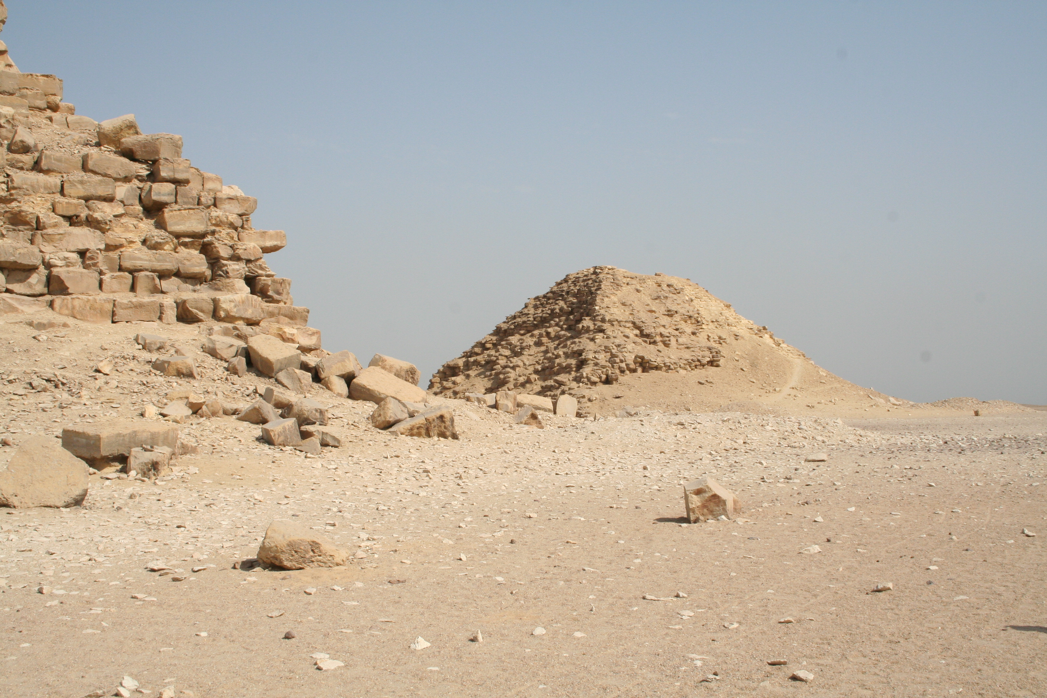 The sattelite Pyramid of Snofru's Bent Pyramid at Dahschur